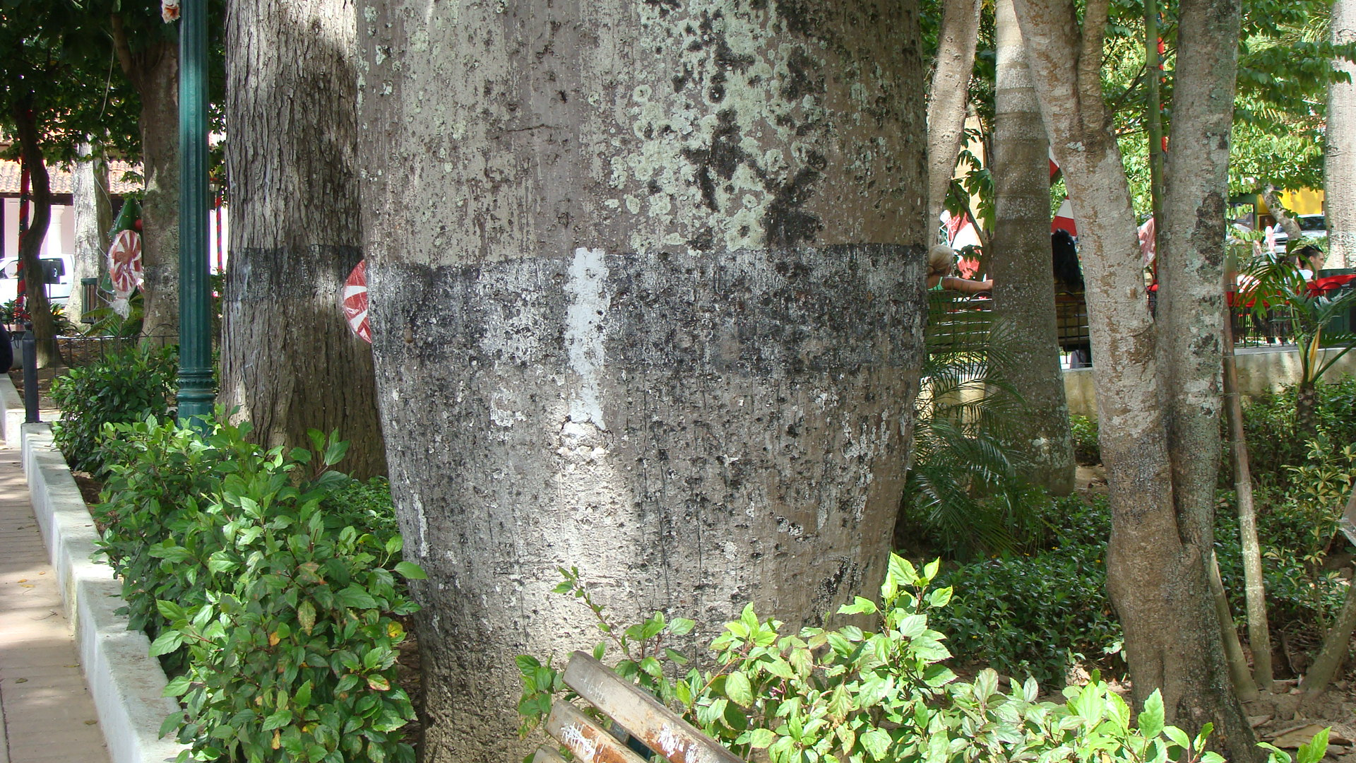 Ceiba pentandra trunk. Plaza Bolívar de El Hatillo (Venezuela)